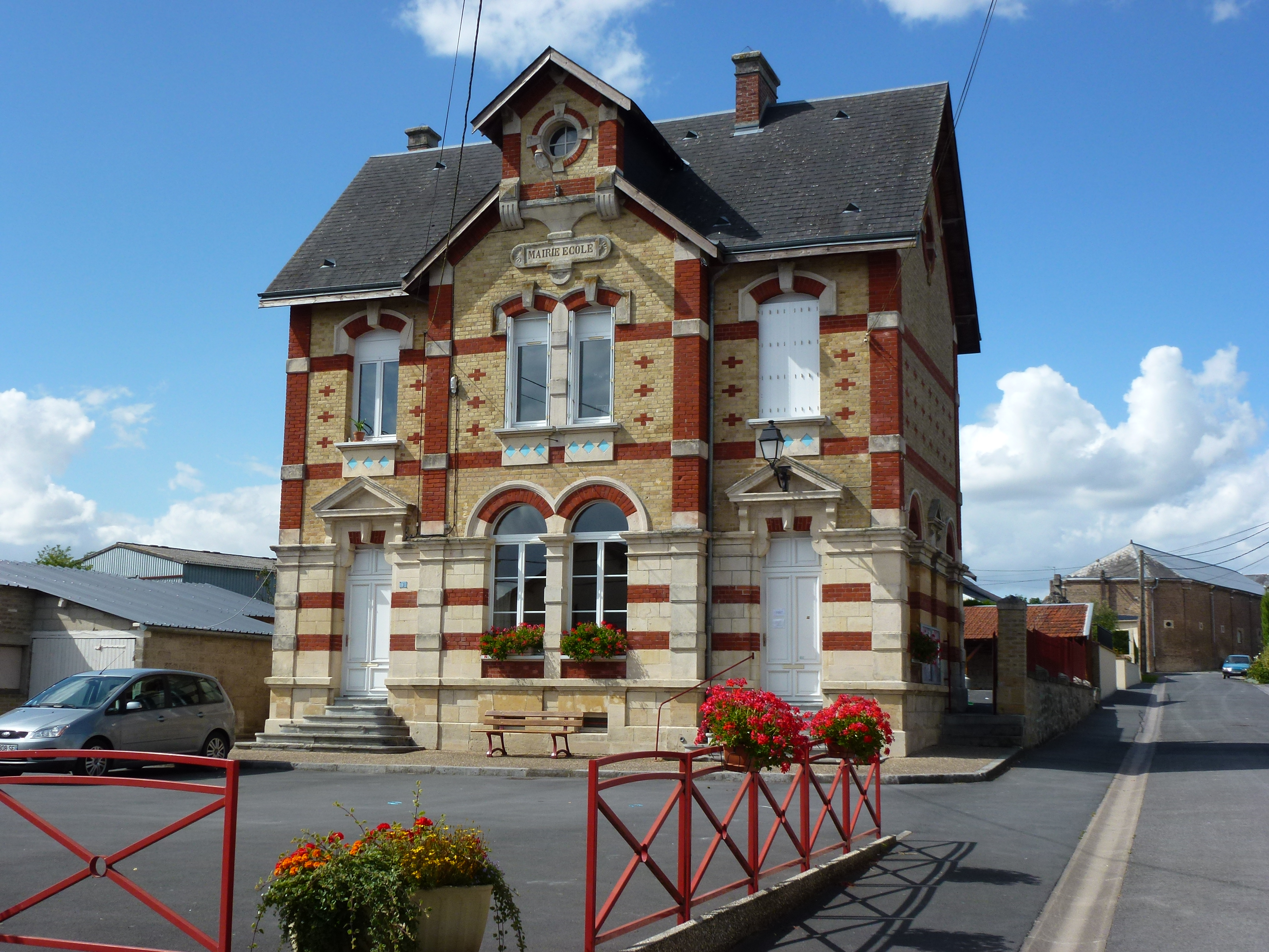 Sorbon (Ardennes) mairie - école